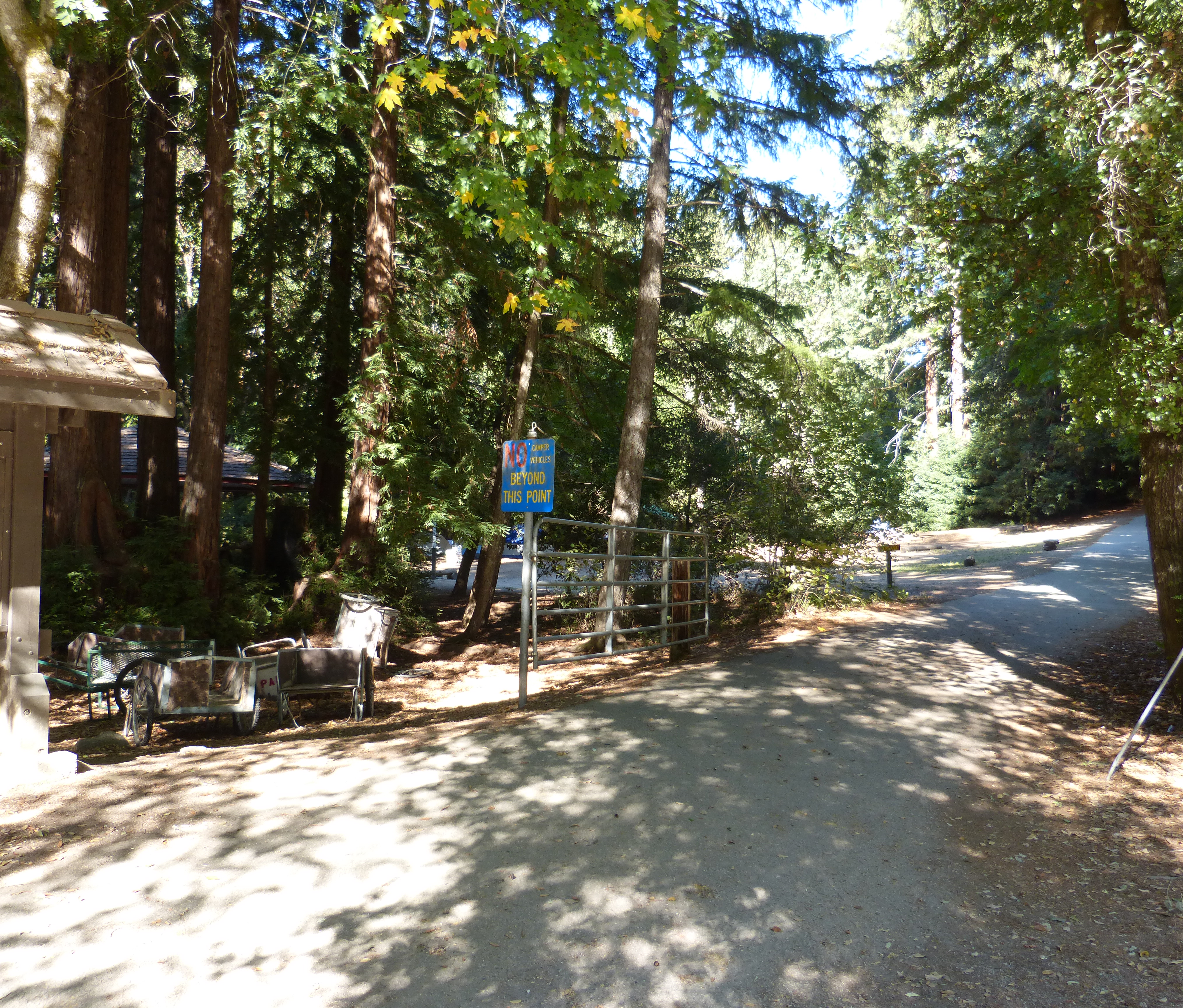 A photo of the entrance to the Boulder Creek Scout Reservation in Boulder Creek, California. The reservation is run by the BSA Pacific Skyline Council.